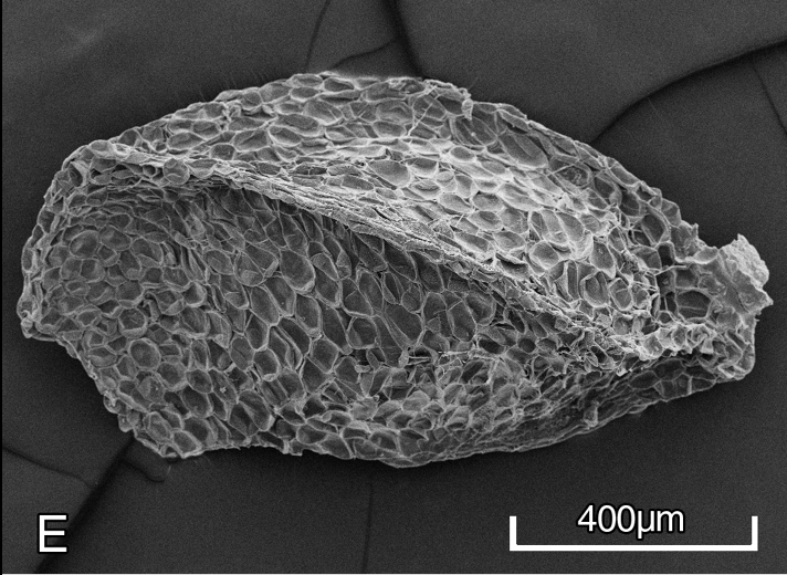 Seed of Kadua tahuatensis, Perlman 16020 (PTBG)